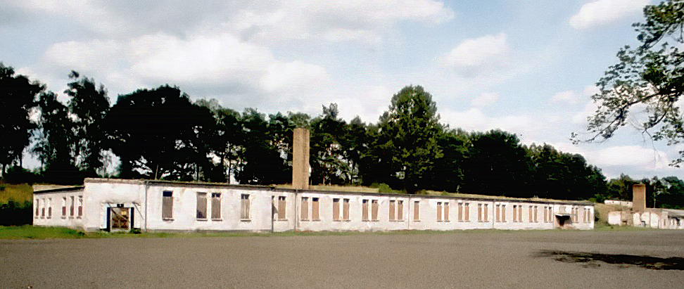 Concentration Camp Ravensbrück Memorial Site - Prisoner labor station on the area of the former womens camp.